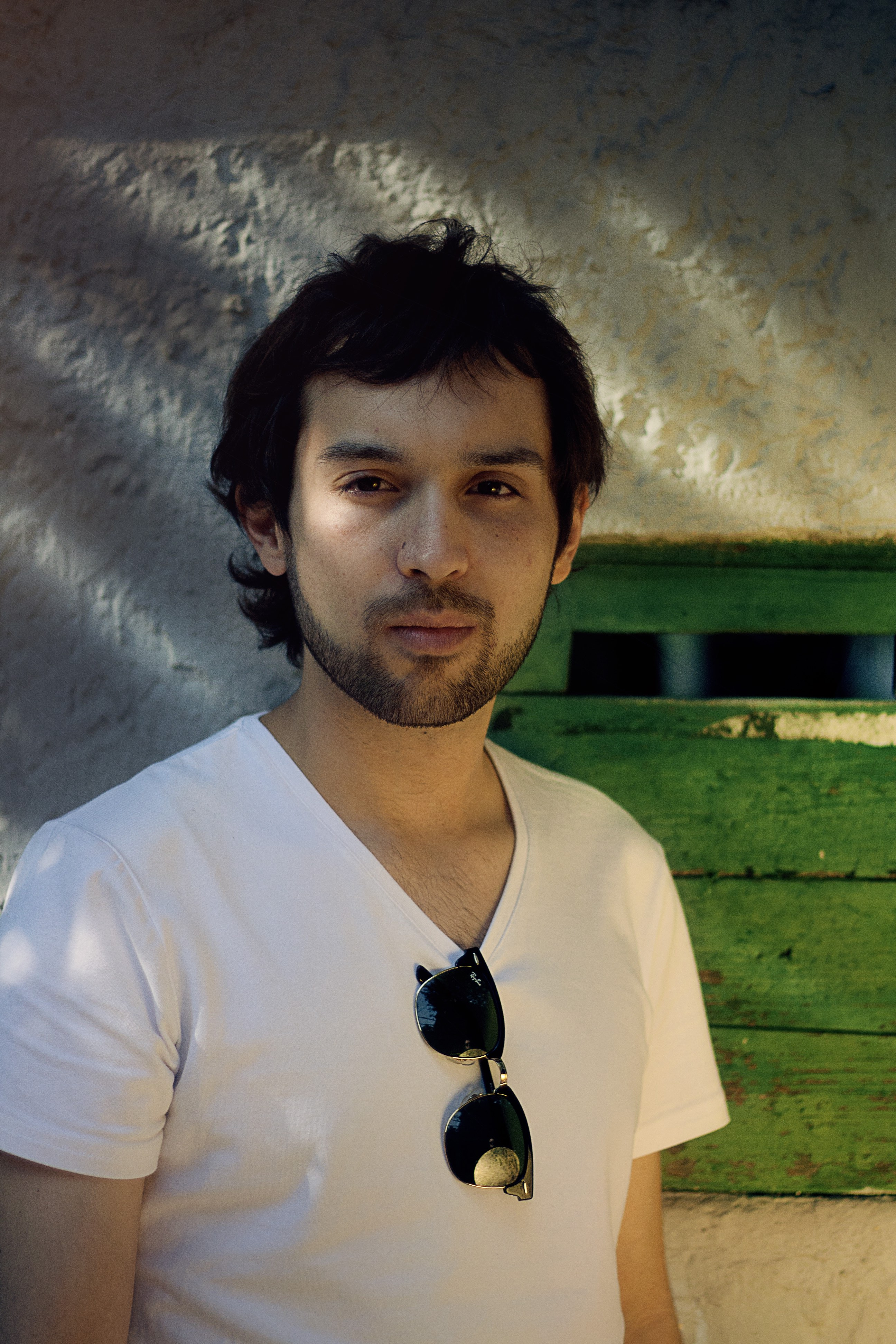 A photo